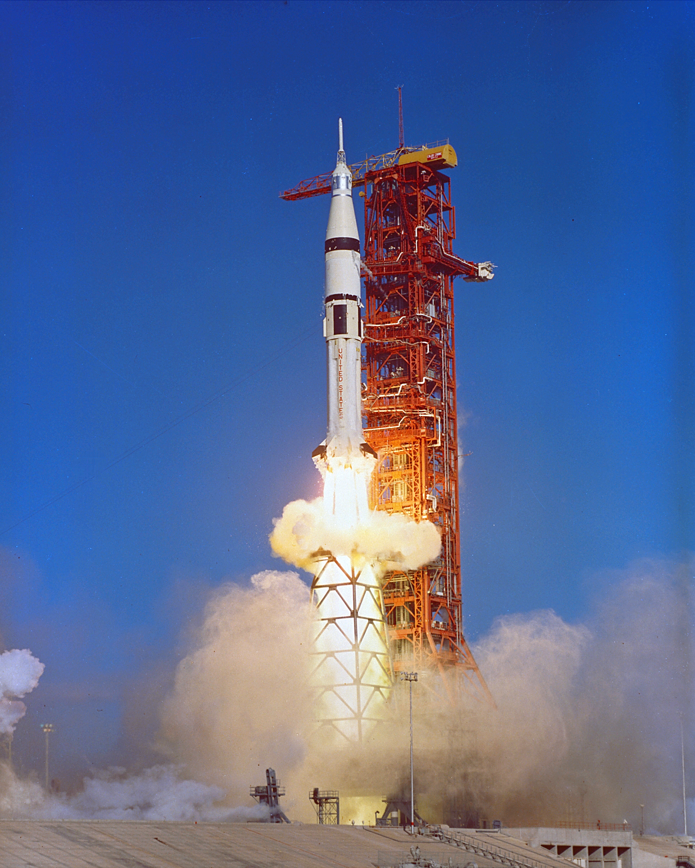 The Saturn IB launch vehicle lifting off from Launch Complex 39B at 9:01 a.m. EST. The Skylab 4 astronauts Gerald P. Carr, Dr. Edward G. Gibson, and William R. Pogue, were onboard for the third and final mission to the orbiting space station.